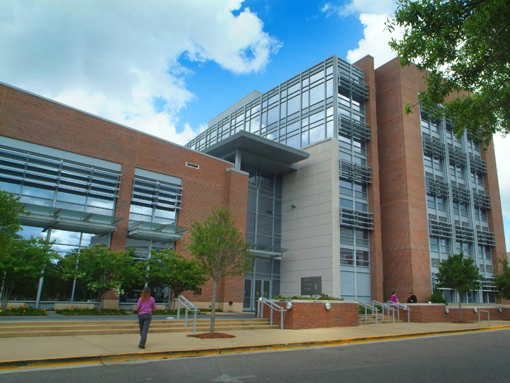 The Health Sciences Building, located near the center of Georgia Regents University's Health Sciences campus, houses many academic departments.